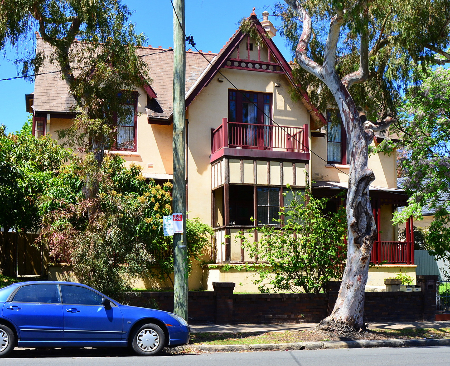 Venice, Randwick, Sydney